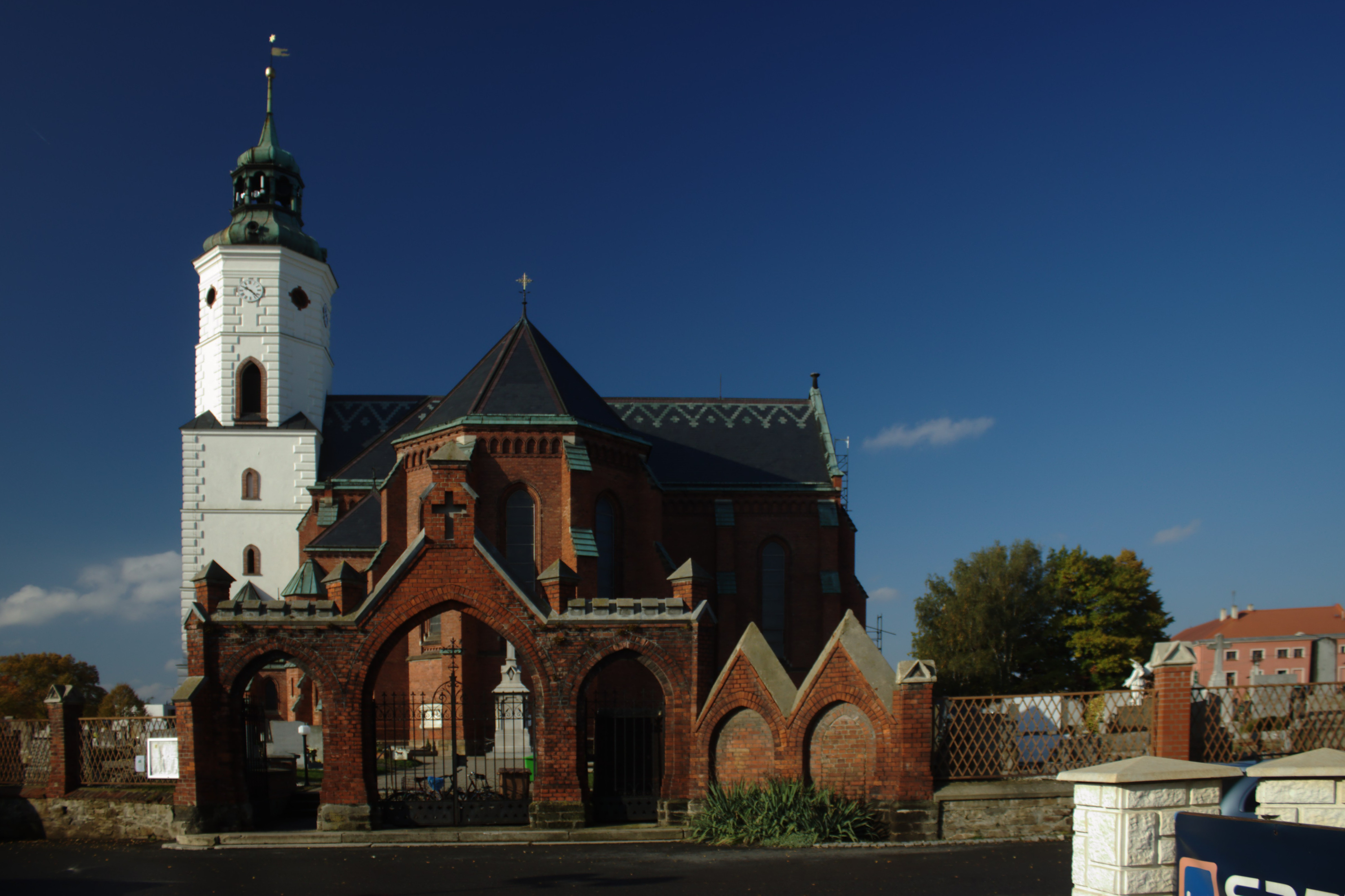 Front view of the church of st. Bartholomew in Kravaře, Moravian-Silesian Region, CZ